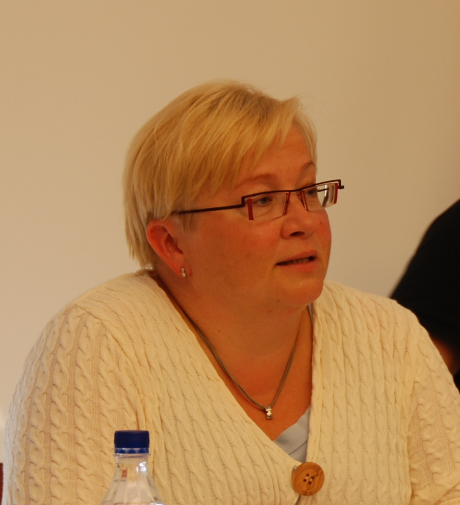 The Chairperson of Finnish Bar Association